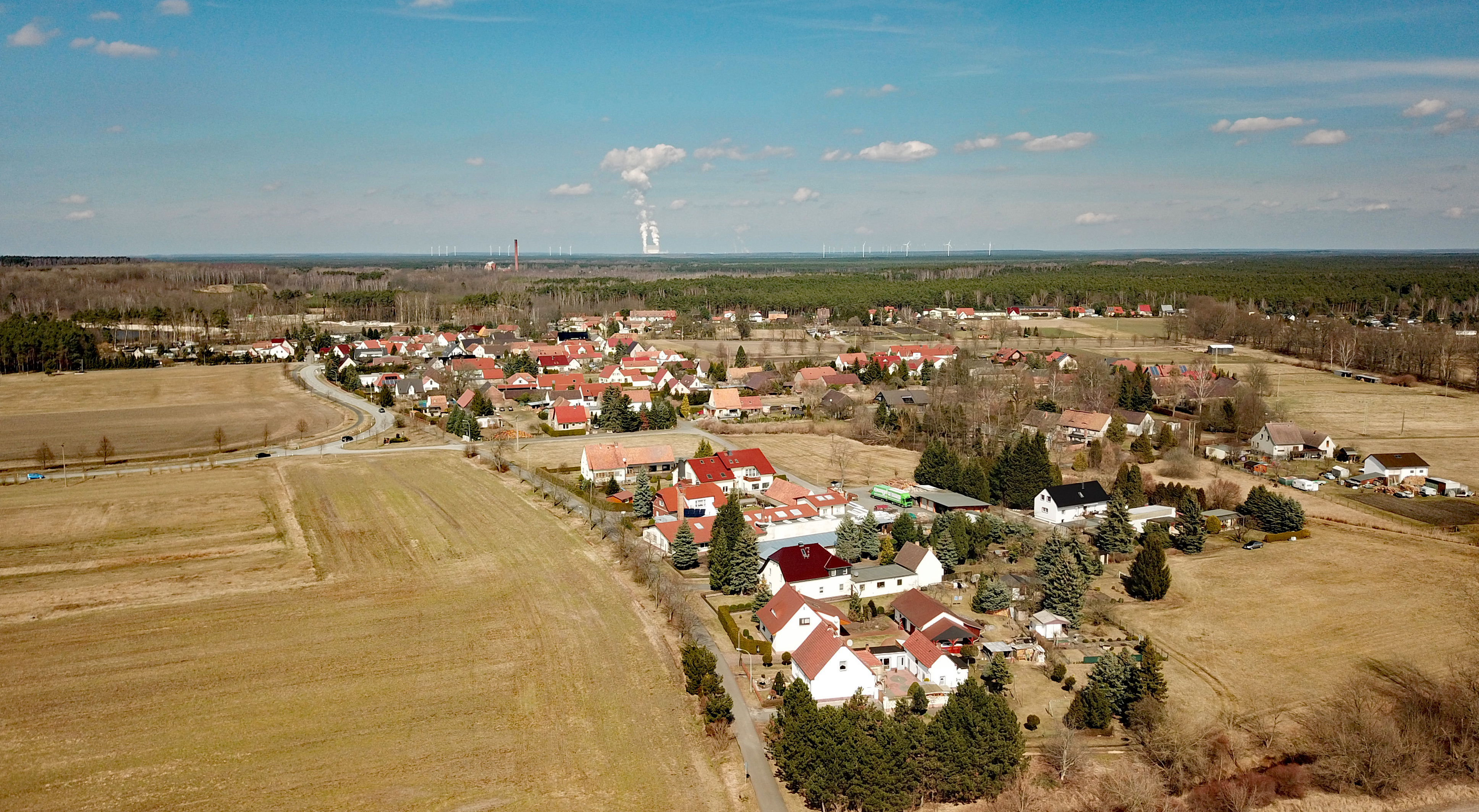 Koblenz (Lohsa, Saxony, Germany) Hornjoserbsce: Powětrowy wobraz Koblic pola Łaza